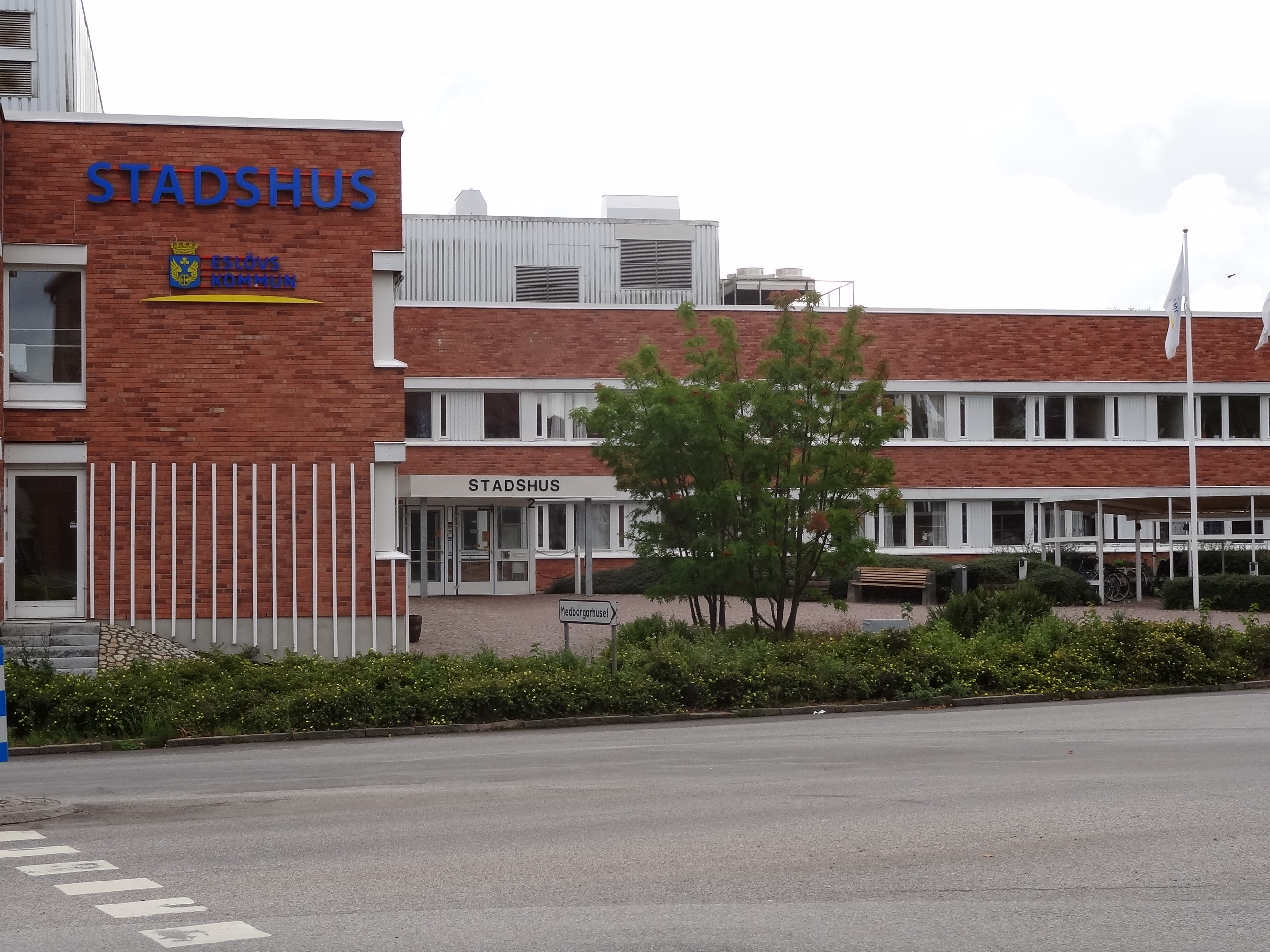 Eslöv municipal building